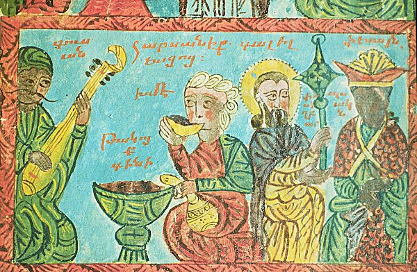 Gusan (troubadour), Marriage at Cana, Matenadaran, XVIth century